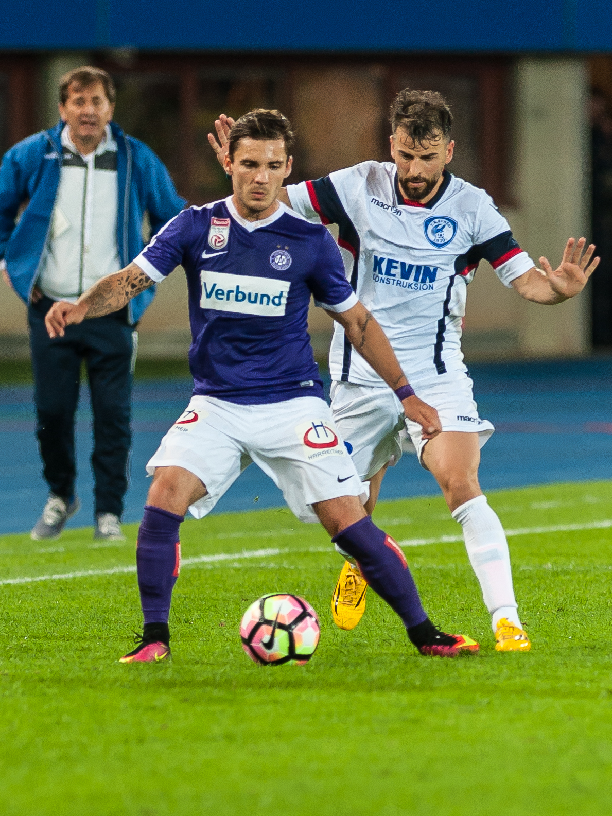 UEFA Europa League - FK Austria Wien vs FK Kukesi, 2016-07-14.